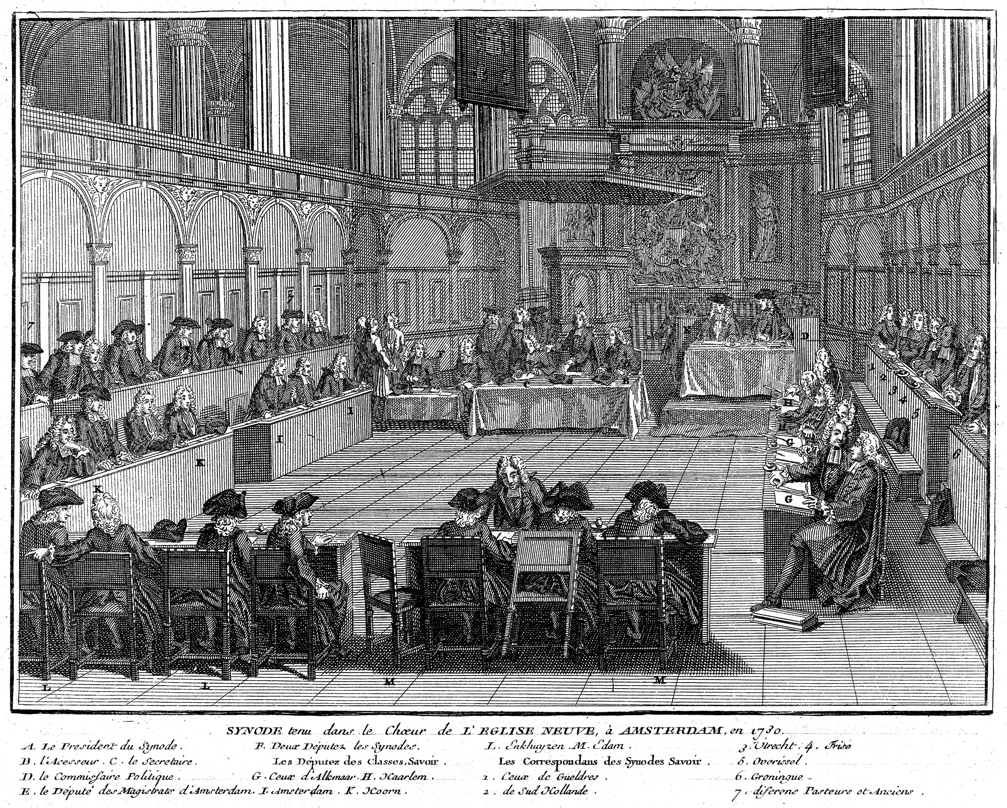 A Reformed synod meets in the chancel of the Nieuwe Kerk (“New Church”) in Amsterdam. Drawn by Bernard Picart (1673–1733).